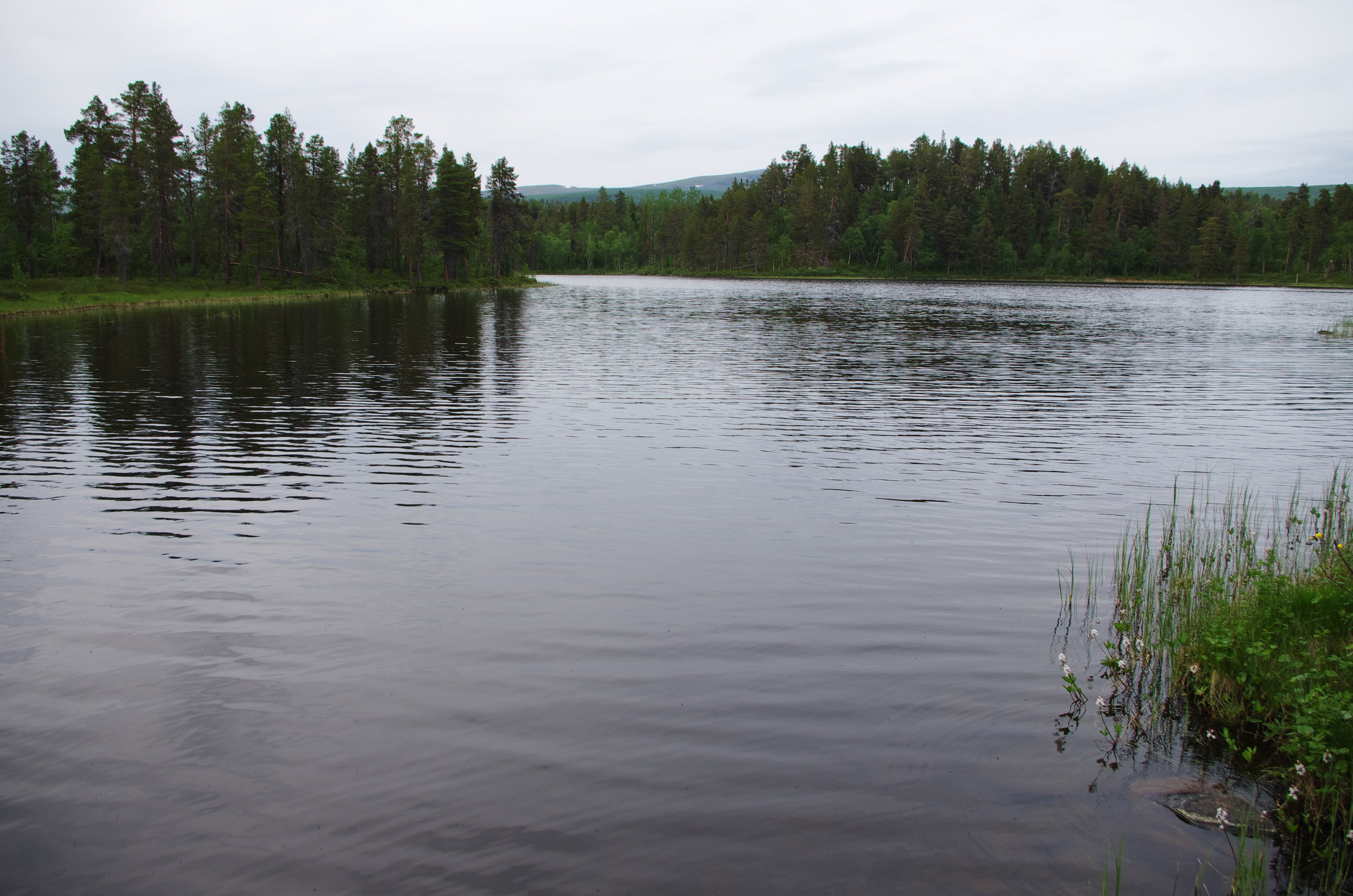 The lake Haugajaure or Hávggajávrre in Arjeplog Municipality, Lappland, Sweden. The hiking trail Kungsleden passes next to the lake.